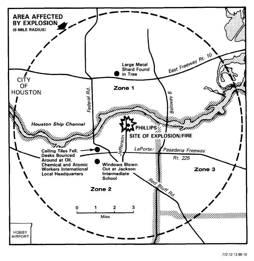 Map of area affected by the explosion Appendix A. Map of Area Affected by the Explosion, from page 20 of . This is a document is under the auspices of the United States Fire Administration, Technical Report Series, entitled "Phillips Petroleum Chemical Plant Explosion and Fire -- Pasadena, Texas" from the Federal Emergency Management Agency, United States Fire Administration, National Fire Data Center.